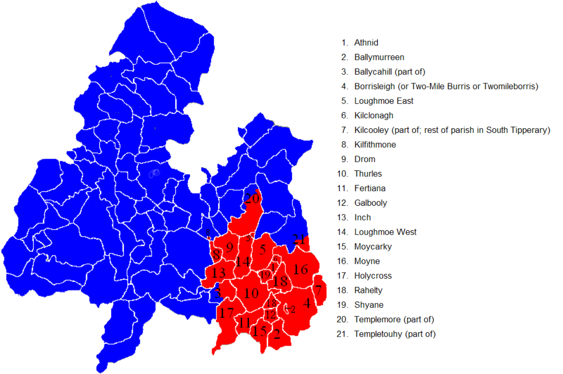 Map showing the civil parishes in the barony of Eliogarty in North Tipperary. This map is based on the information in this Ordnance Survey map. Note that three parishes (Ballycahill, Templemore, Templetouhy), although fully in North Tipperary, are only partly in the barony and that a further parish (Kilcooley) is only partly in North Tipperary, although all that part is in the barony.